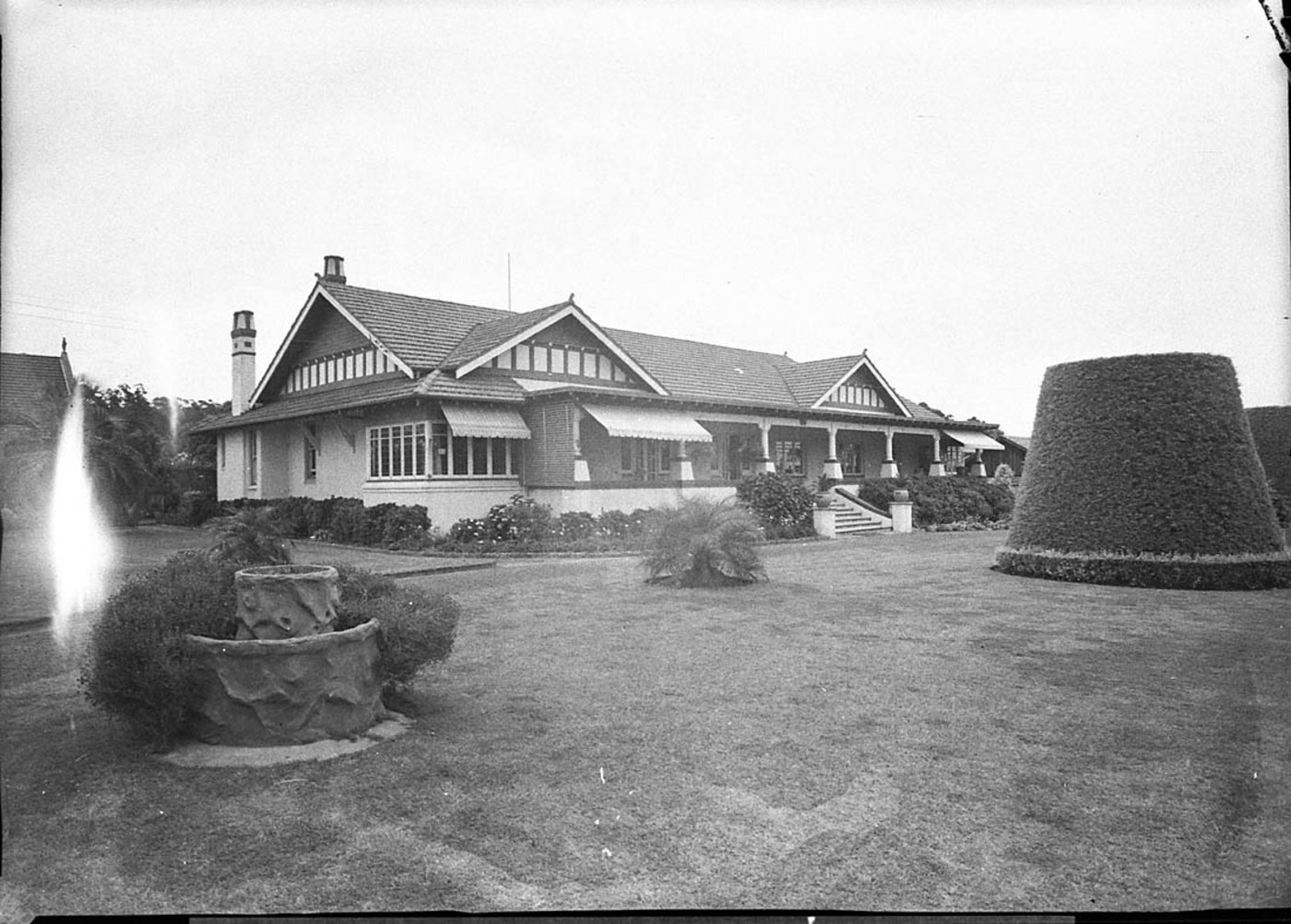 Mrs Surgeon's home at Cheltenham